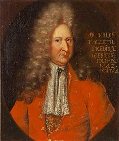 Herluf Nielsen Trolle (died 1714), Danish landowner